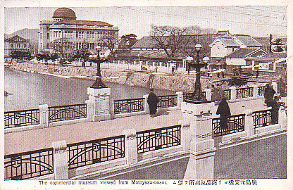 広島県商品陳列館 Hiroshima Prefectural Products Exhibition Hall